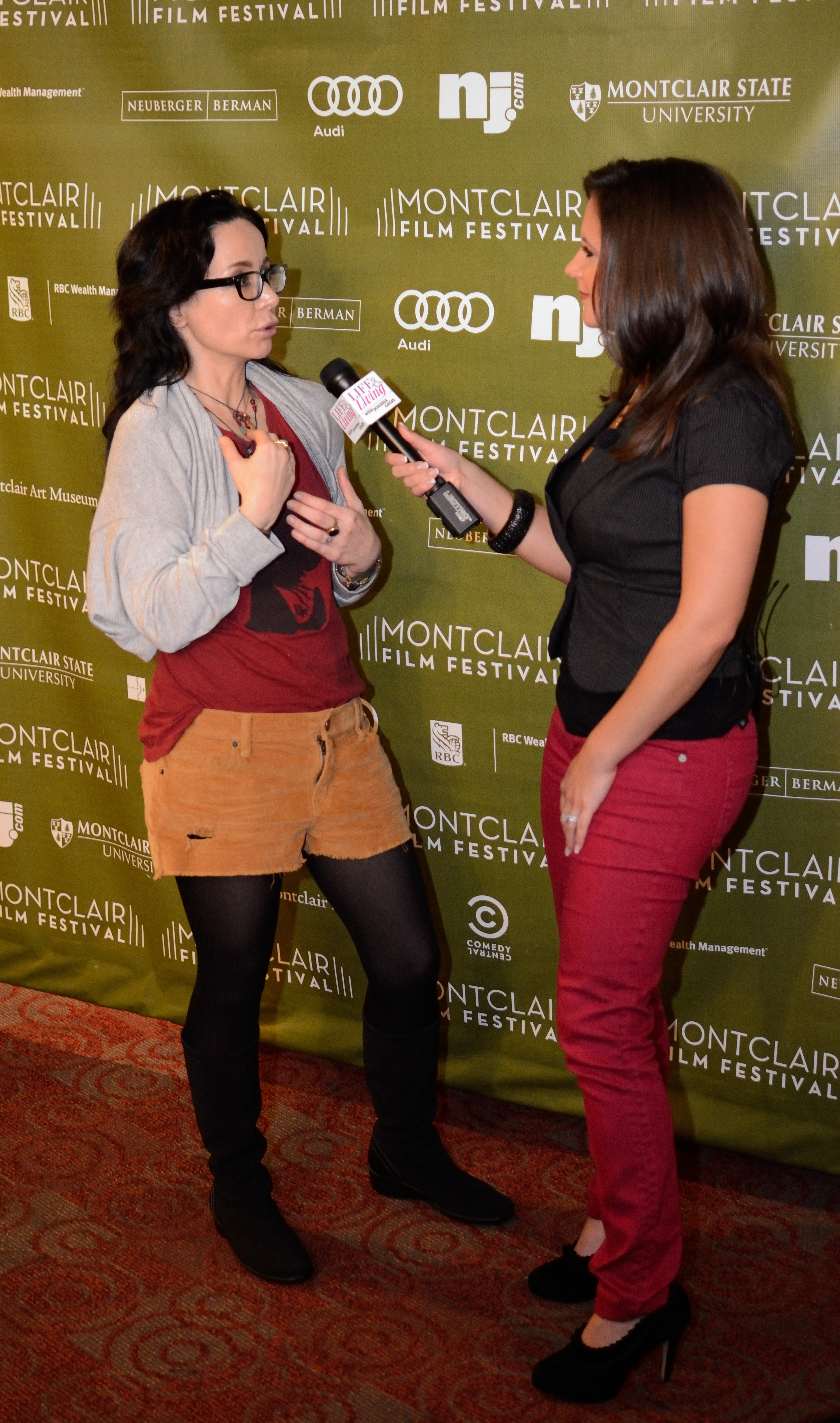 Bad Parents World Premier at the MontClair Film Festival